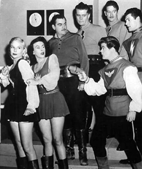 Photo of the cast of the television program Space Patrol. From left to right: Virginia Hewitt (Carol Carlisle), Nina Bara (Tonga), Norman Jolley (Agent X), Glenn Dixon (Space Patrol Major Gruel), Ken Meyer (Maj. Robbie Robertson), Lyn Osborn (Cadet Happy), and Ed Kemmer (Cmdr. Buzz Corry). The photo was either a response sent as a reply to viewer fan mail or some type of premium viewers sent for.